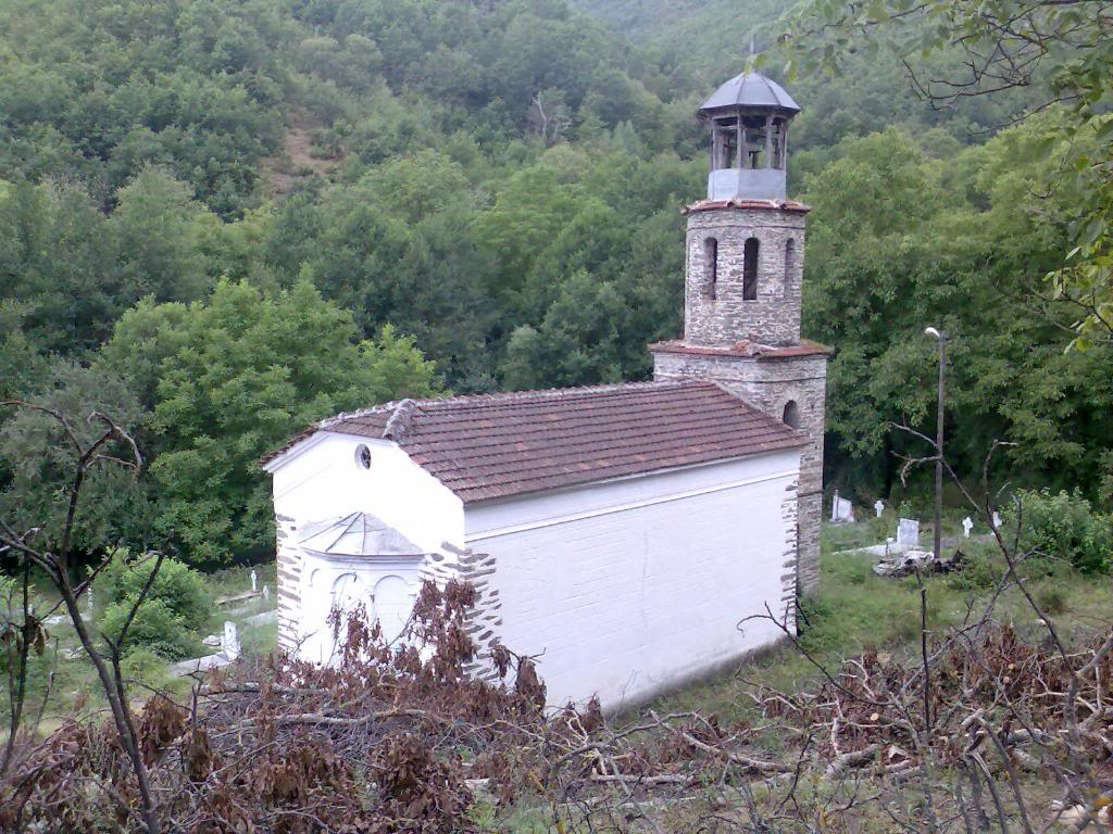 Village of Topolnitsa, Poreche region, Republic of Macedonia